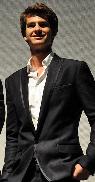 Andrew Garfield at the screening of Never Let Me Go at the 2010 Toronto International Film Festival. (Photo taken September 11, 2010.)